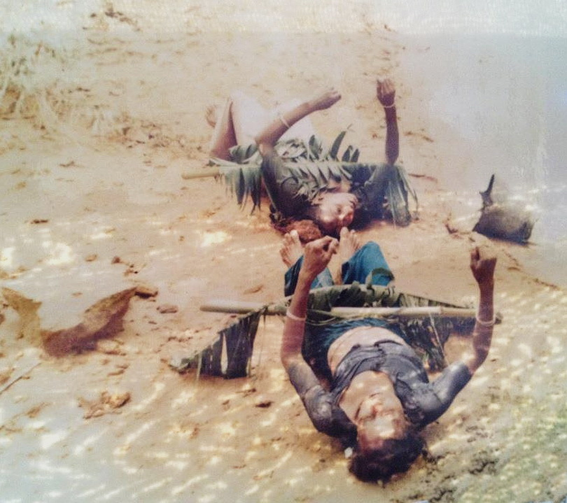 People Dead 1991 in Sandwip